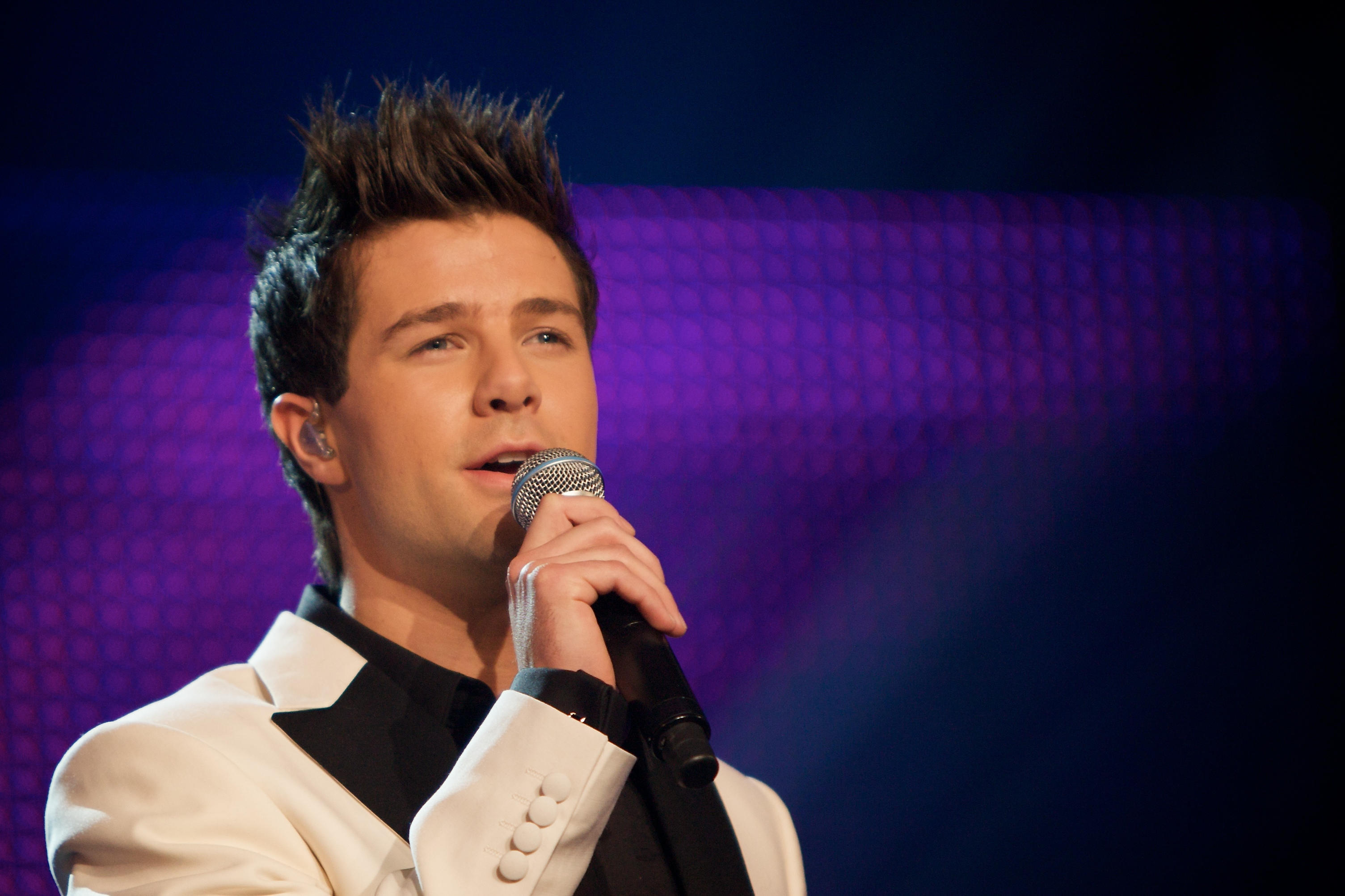 Didrik Solli-Tangen at the third Melodi Grand Prix semi-final in Skien, Norway. MGP is the Norwegian national selection for the Eurovision Song Contest.